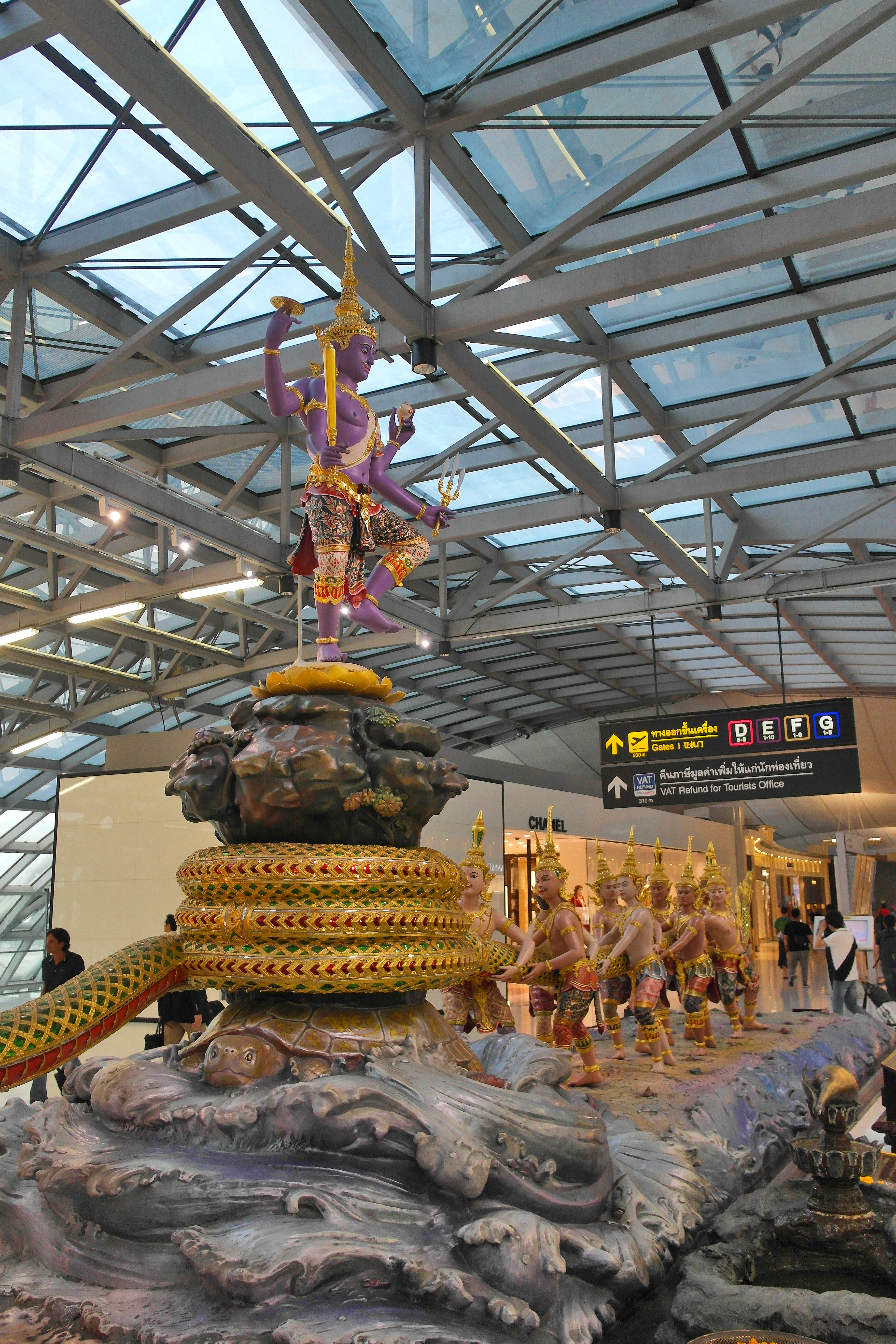 SAMSUNG CSC